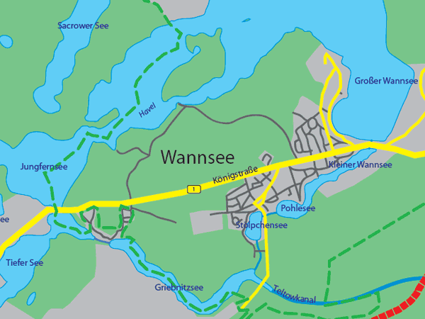 Author: Felix Hahn Source: Based on Water map of Berlin Description: Map of Berlin-Wannsee